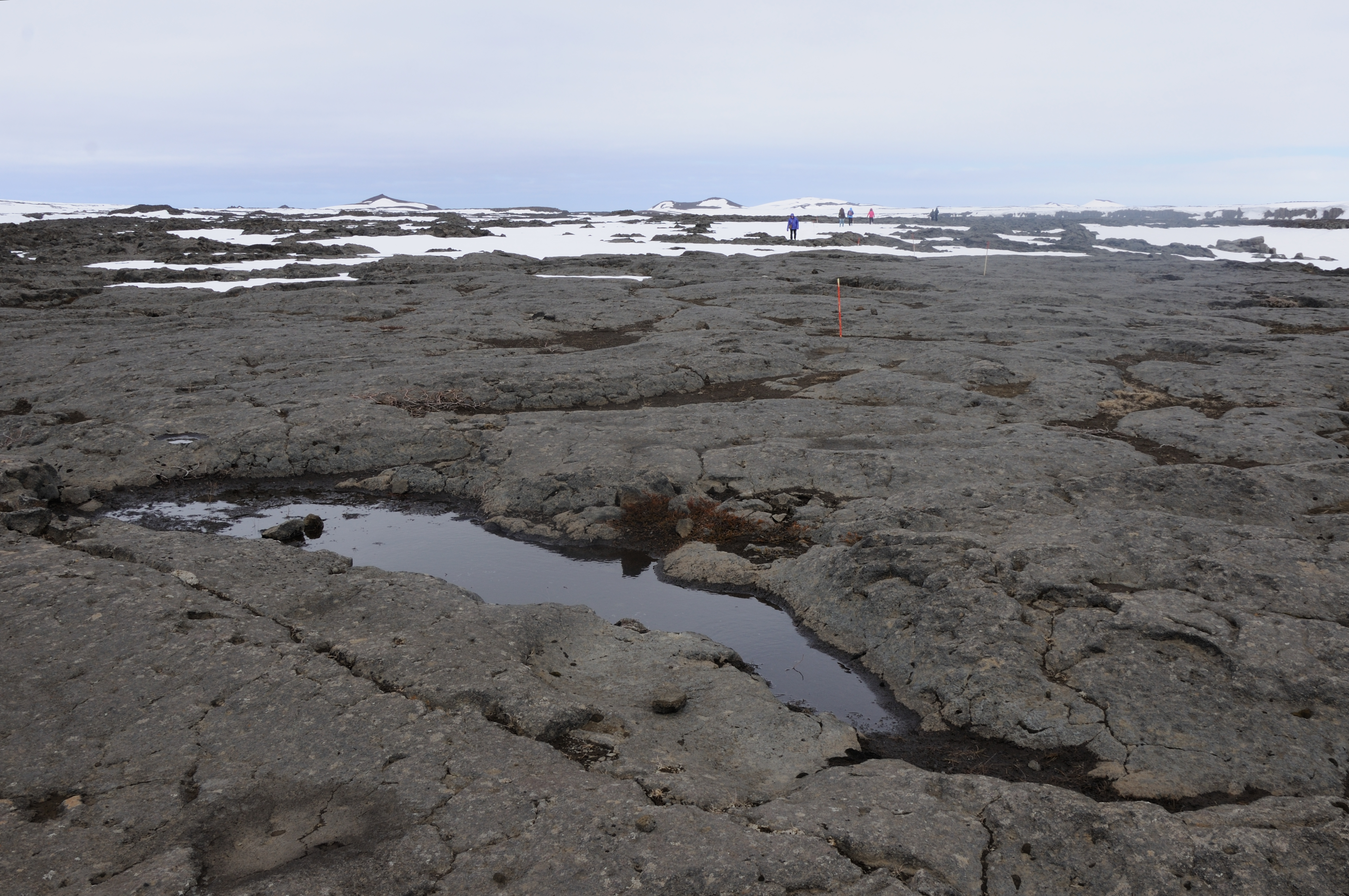 Iceland, a trip to Dettifoss